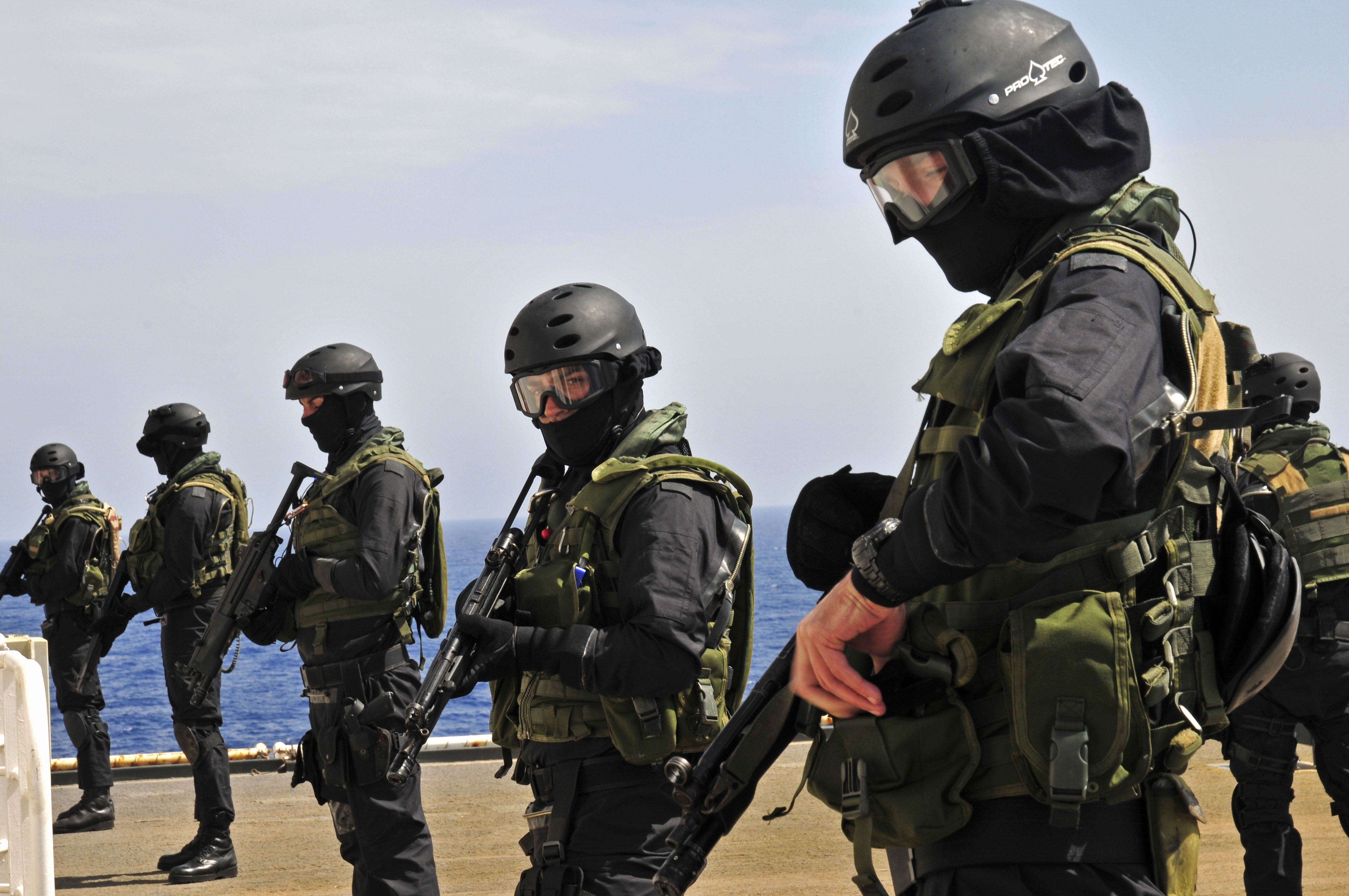 MEDITERRANEAN SEA (May 28, 2010) Italian navy visit, board, search and seizure team members secure the flight deck after fast-roping onto the Military Sealift Command container and roll-on/roll-off ship USNS LCPL Roy M. Wheat (T-AK 3016) during exercise Phoenix Express 2010. Phoenix Express is a two-week exercise designed to strengthen maritime partnerships and enhance stability in the region through increased interoperability and cooperation among partners from Africa, Europe, and the U.S. (U.S. Navy photo by Mass Communication Specialist 2nd Class Felicito Rustique/Released)